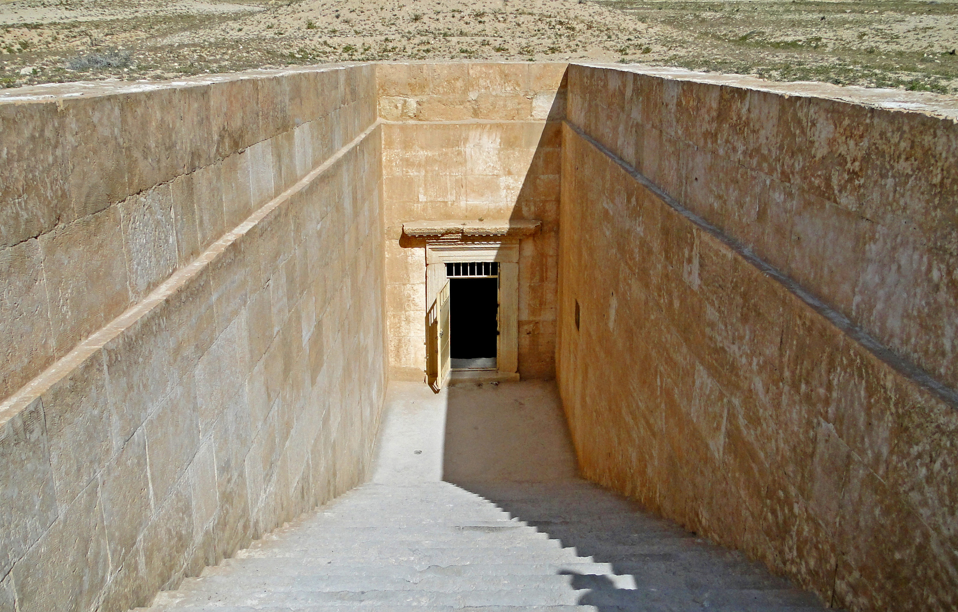 Entrance of the Three Brother's hypogeum in the South-West necropolis of Palmyra, Syria